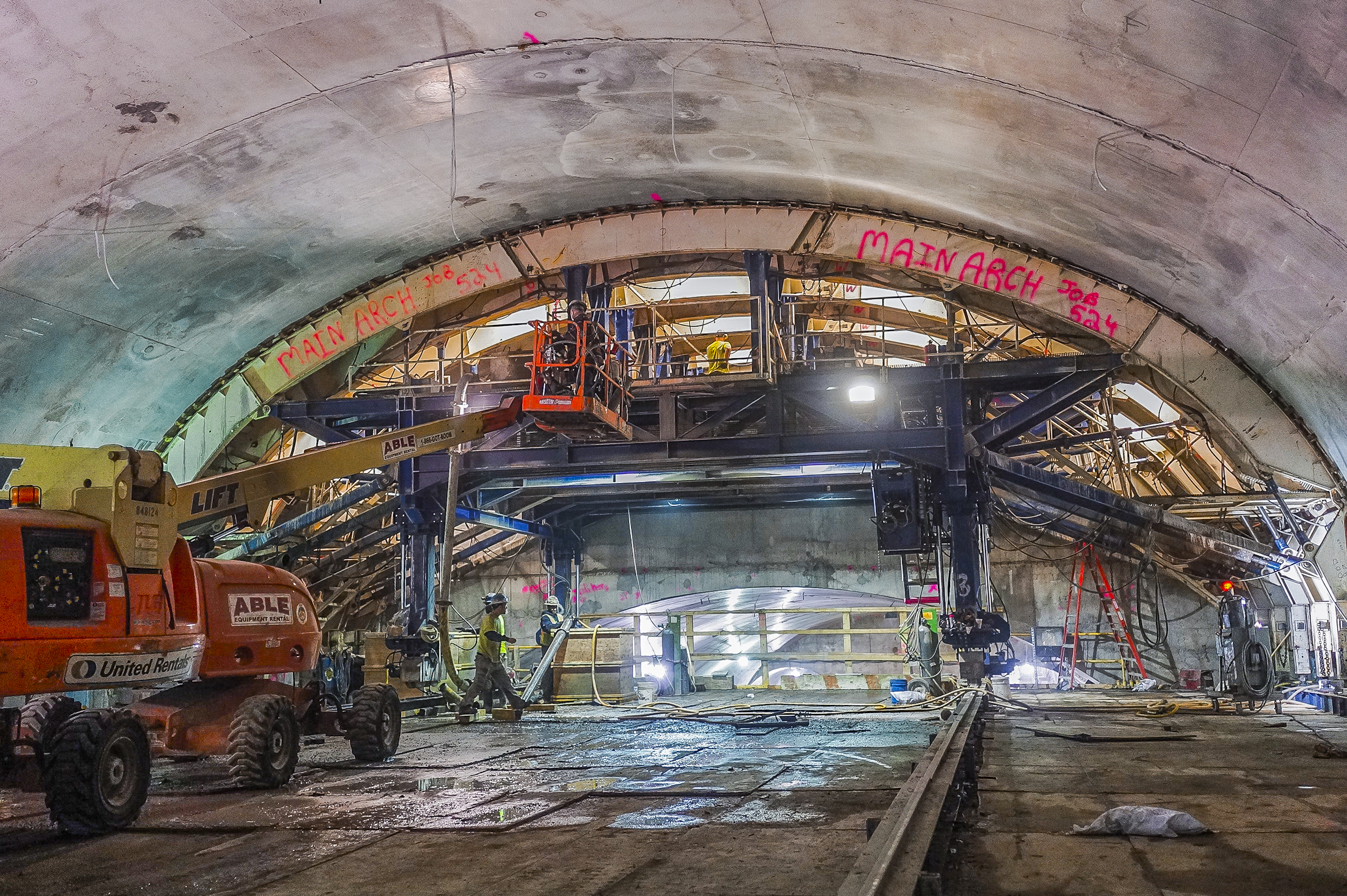 Progress at Second Avenue Subway's 72nd St. cavern as of January 21, 2014. Photo: MTA Capital Construction / Rehema Trimiew